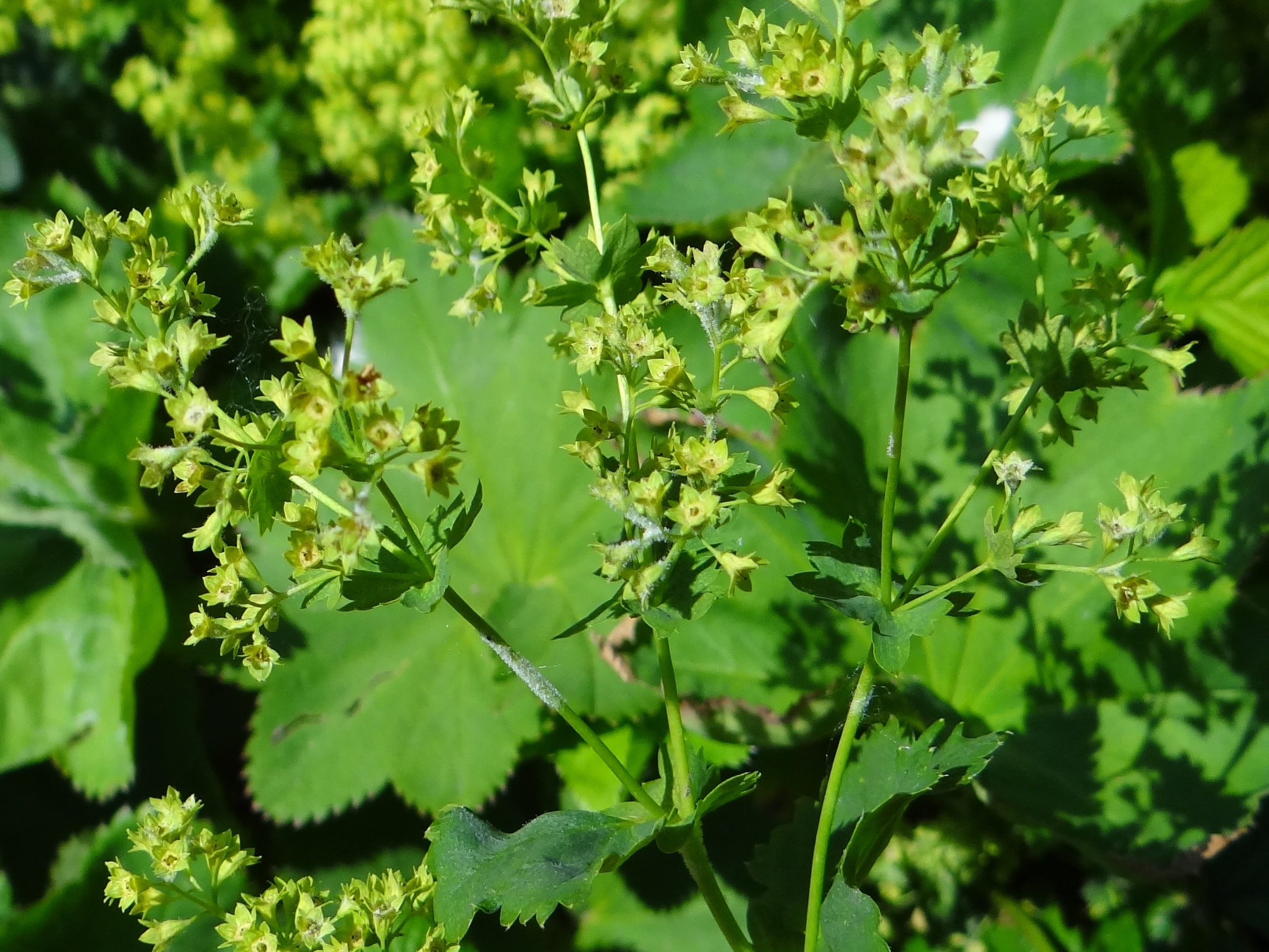 Alchemilla alpestris (location:Botanical Garden in Cracow)